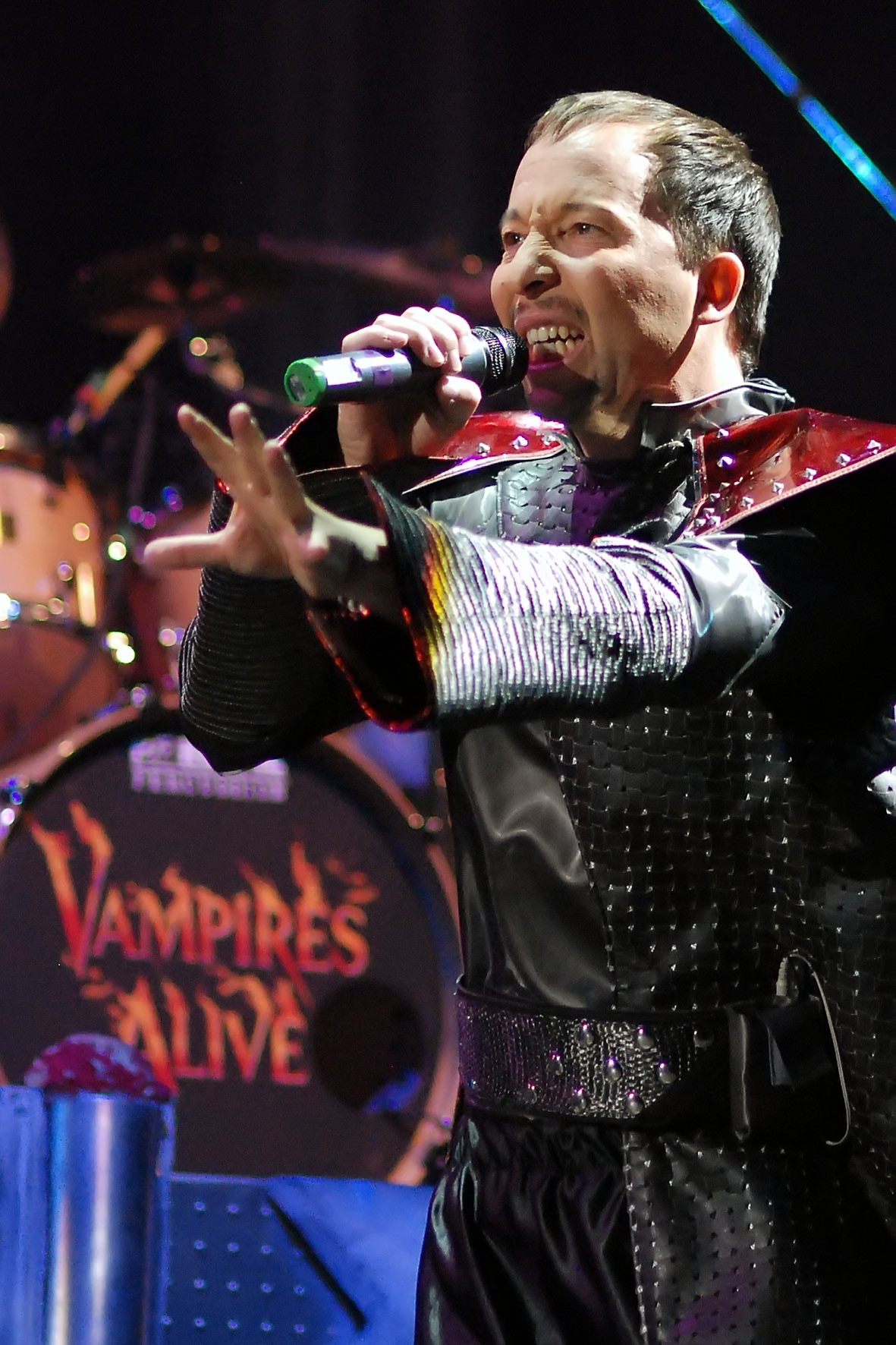 DJ BoBo